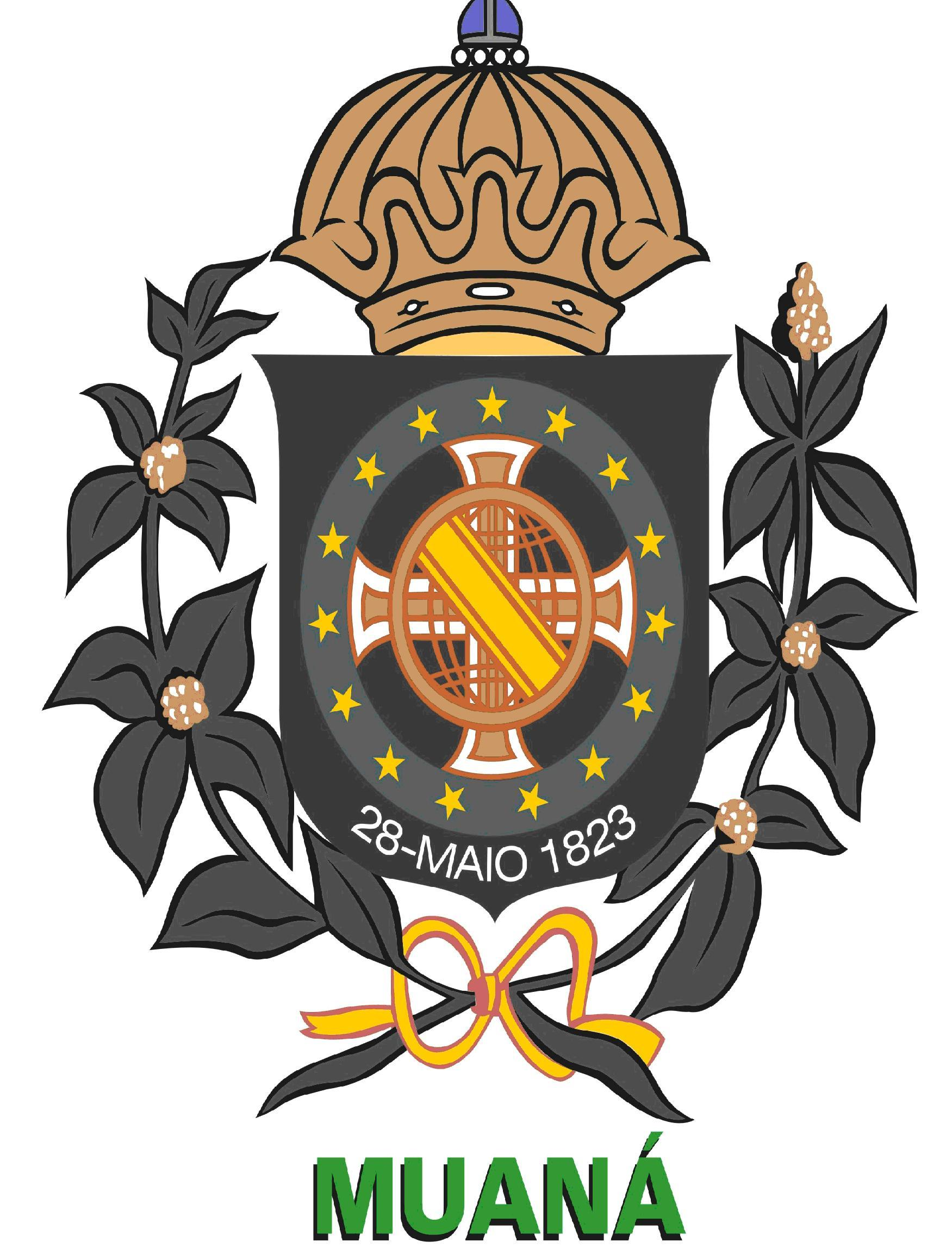 This is the Official Flag of the Municipality of Muaná in Para State of Brazil